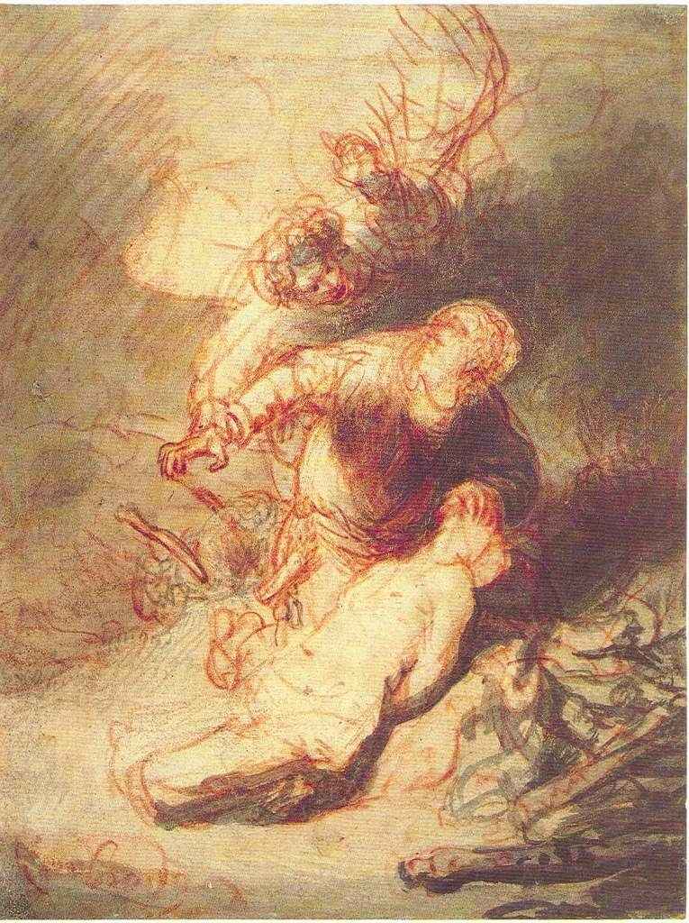 The Sacrifice of Isaac. Study for File:Rembrandt Harmensz. van Rijn 035.jpg